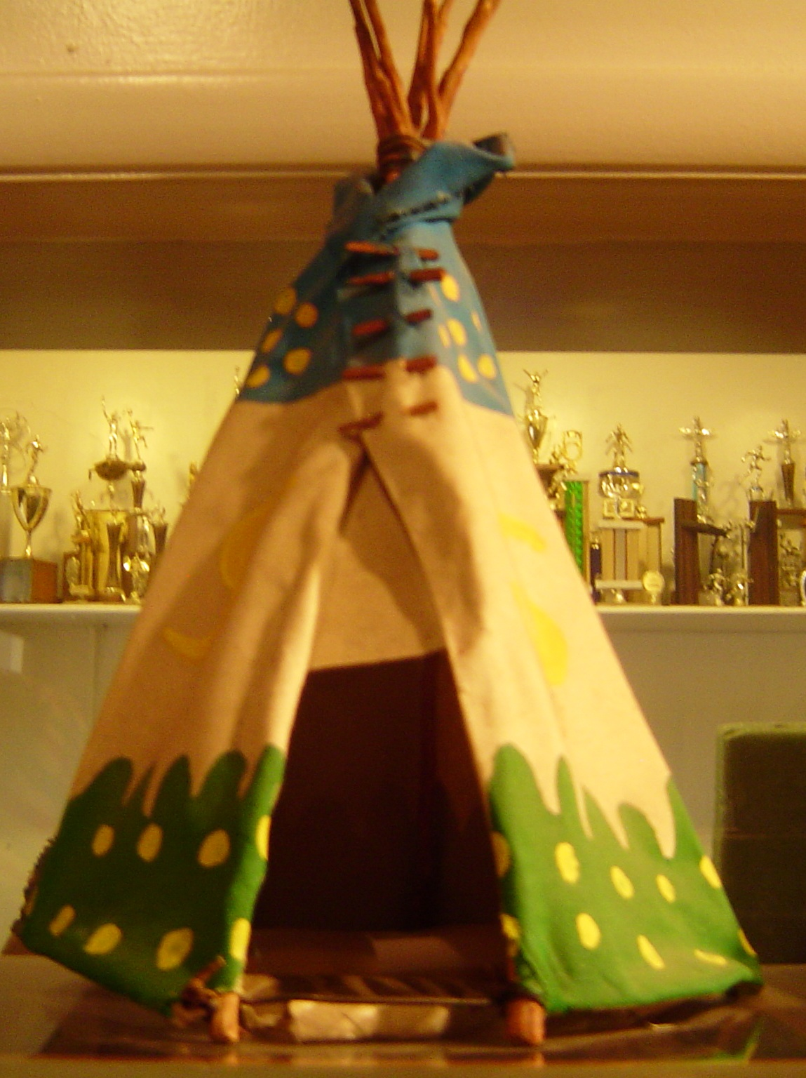 The Sherman Indian Museum in the Arlington area of Riverside, California, includes Native American traditional artifacts, such as this tepee.